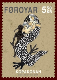 Stamp FO 584 of the Faroe Islands: The Seal Woman (kópakonan)